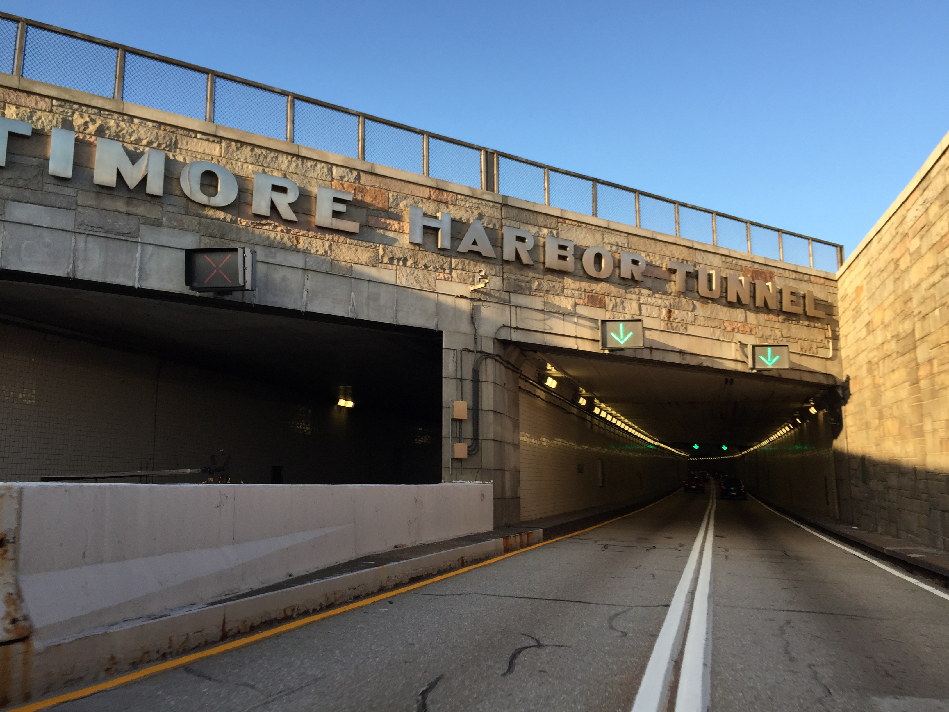 View south along Interstate 895 (Baltimore Harbor Tunnel Thruway) at the north entrance to the Baltimore Harbor Tunnel in Baltimore City, Maryland